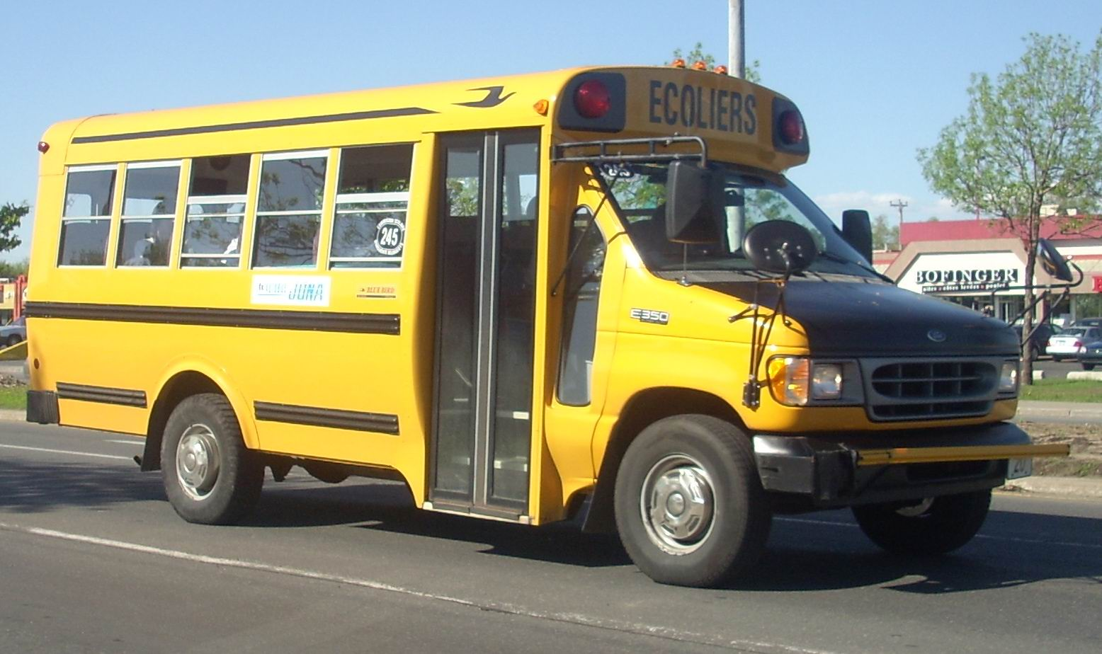 2000-2002 Ford E-350 photographed in Montreal, Quebec, Canada.